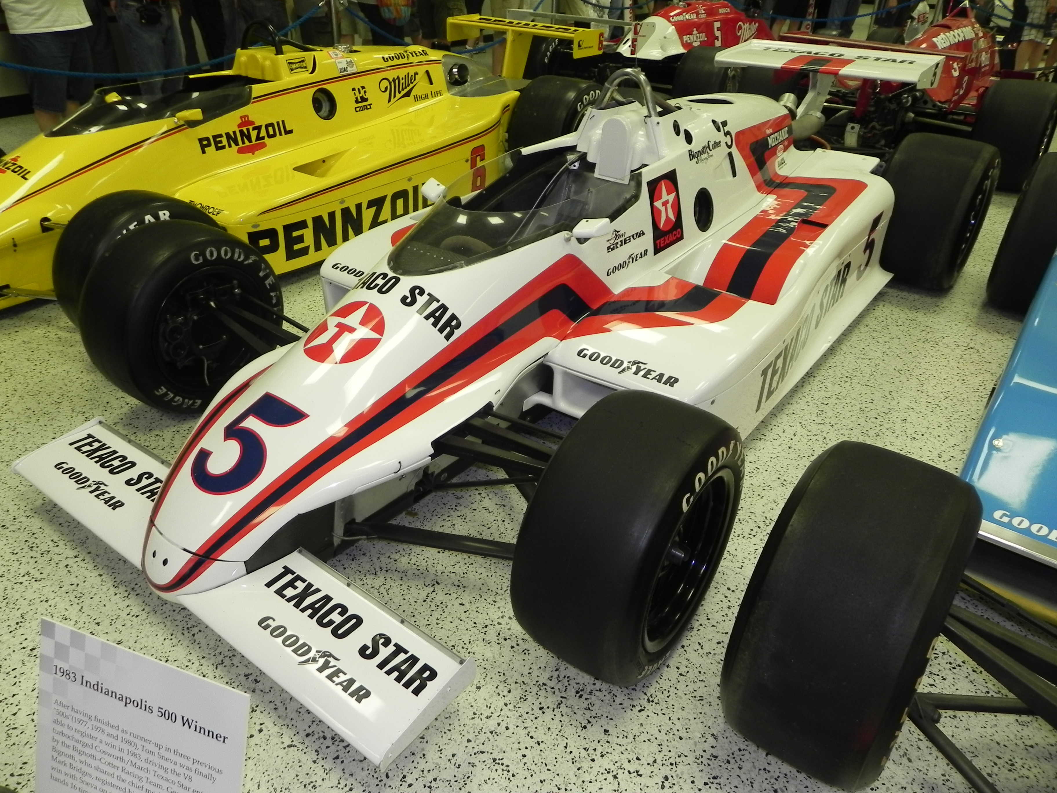 Image of the winning car of the 1983 Indianapolis 500 (Tom Sneva). Photo was taken at the Indianapolis Motor Speedway Hall of Fame Museum, during the month of May 2011, at the 100th Anniversary "Ultimate Indianapolis 500 Winning Car Collection."